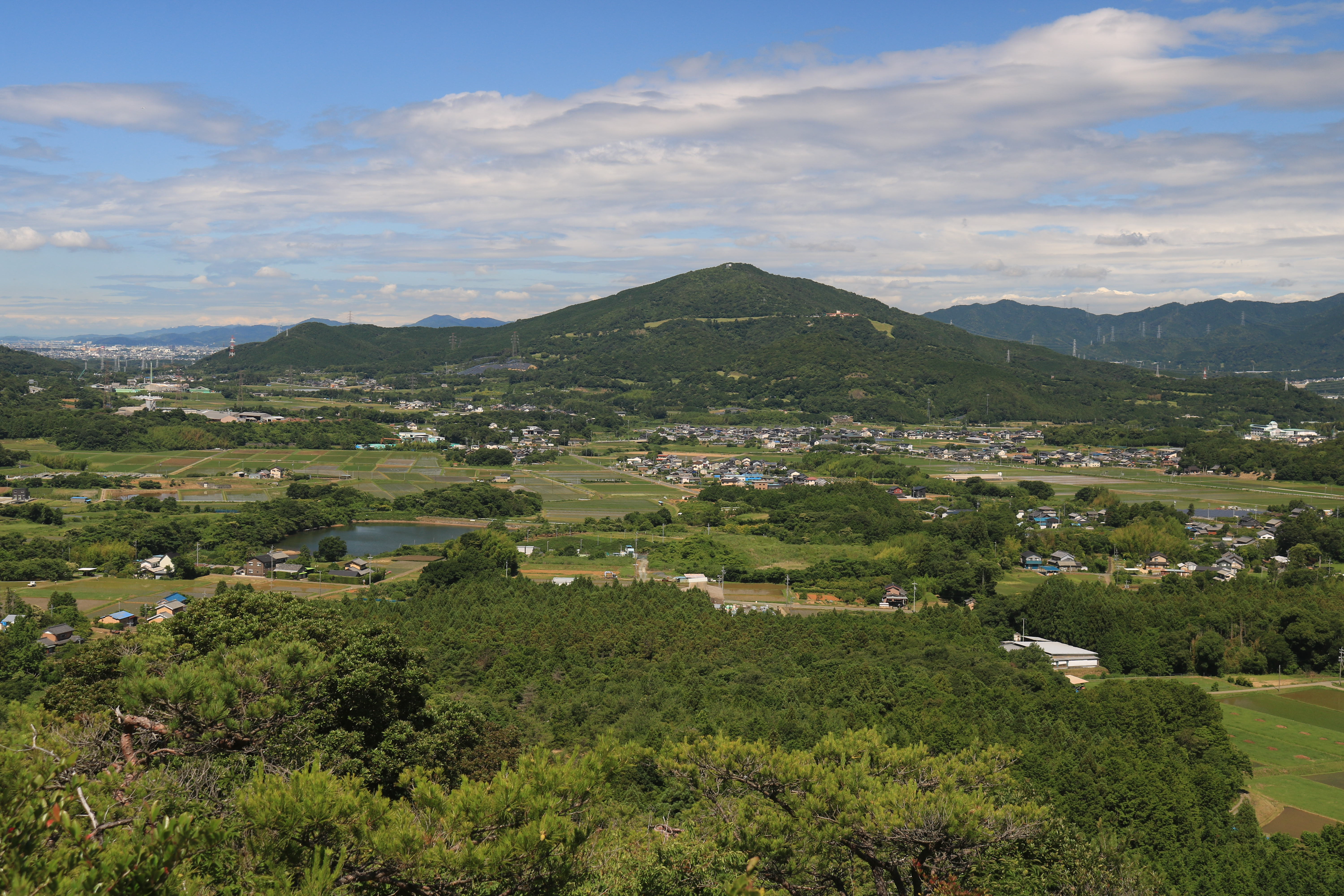 Mount Kichijo in Shinshiro, Aichi Prefecture, Japan.